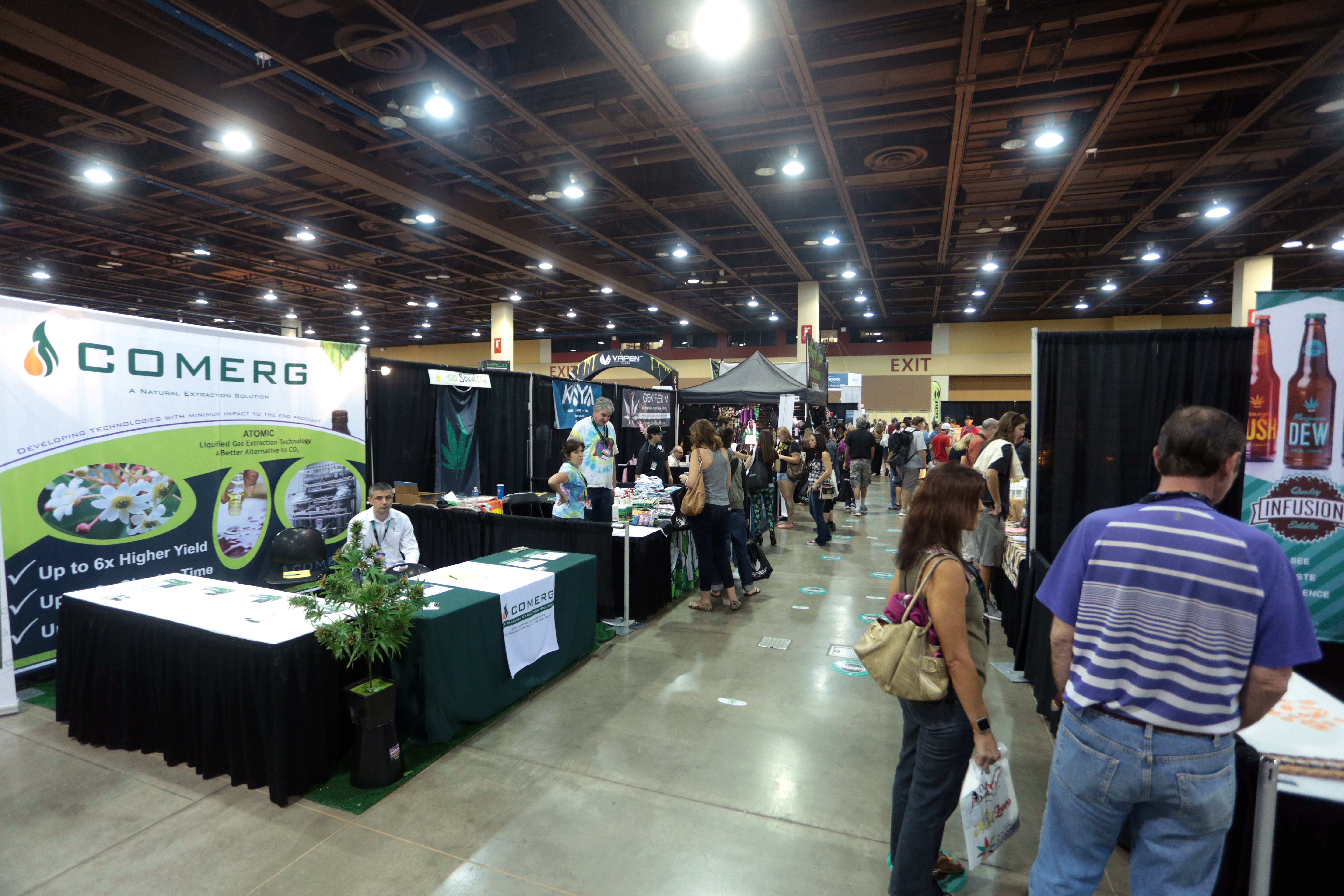 Booth at the 2016 Southwest Cannabis Conference & Expo at the Phoenix Convention Center in Phoenix, Arizona.